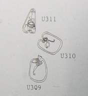 Sign on permanent display indicating the relative position of three runic inscriptions.